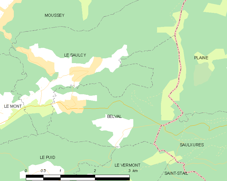 Map of French municipality Belval